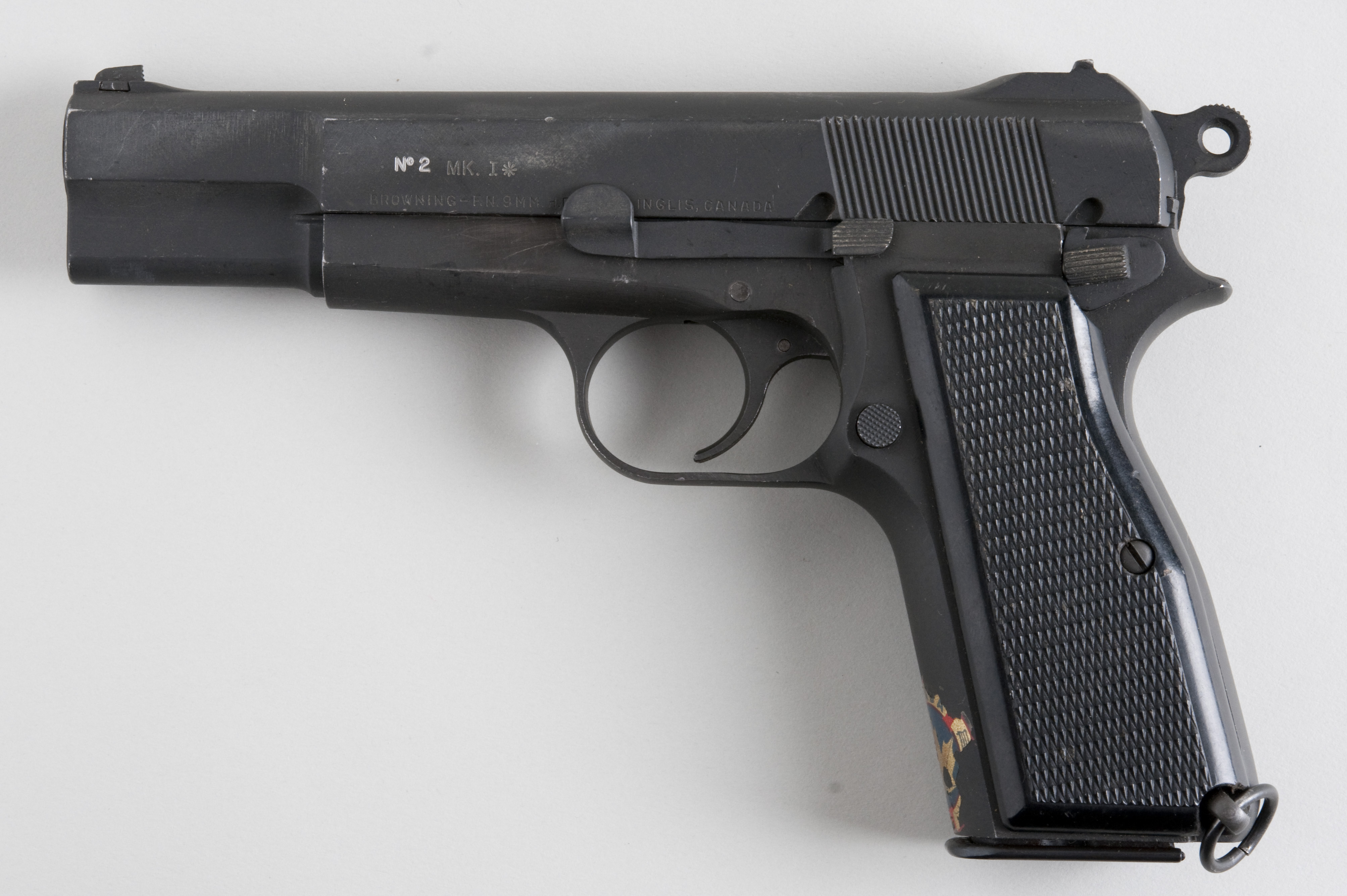 Hi-Power From flickr user handvapensamlingen - Pistols used in Norway.